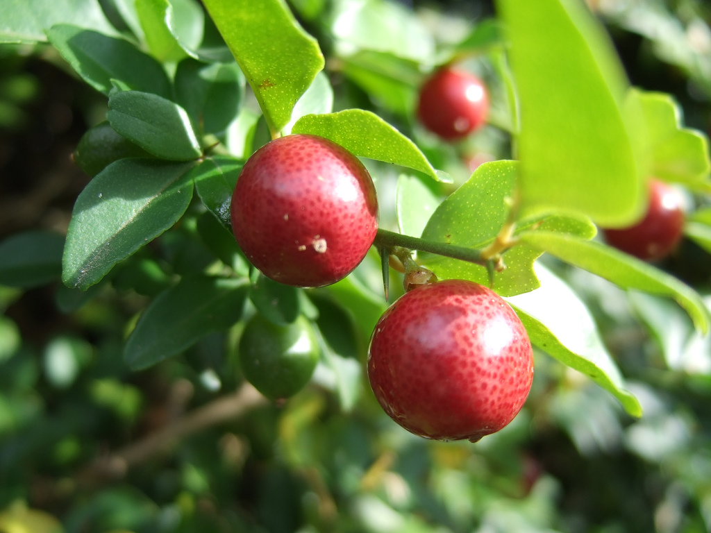 A crop from a beautiful plant of Triphasia Trifoliata in Los Baños, Laguna, Philippines.